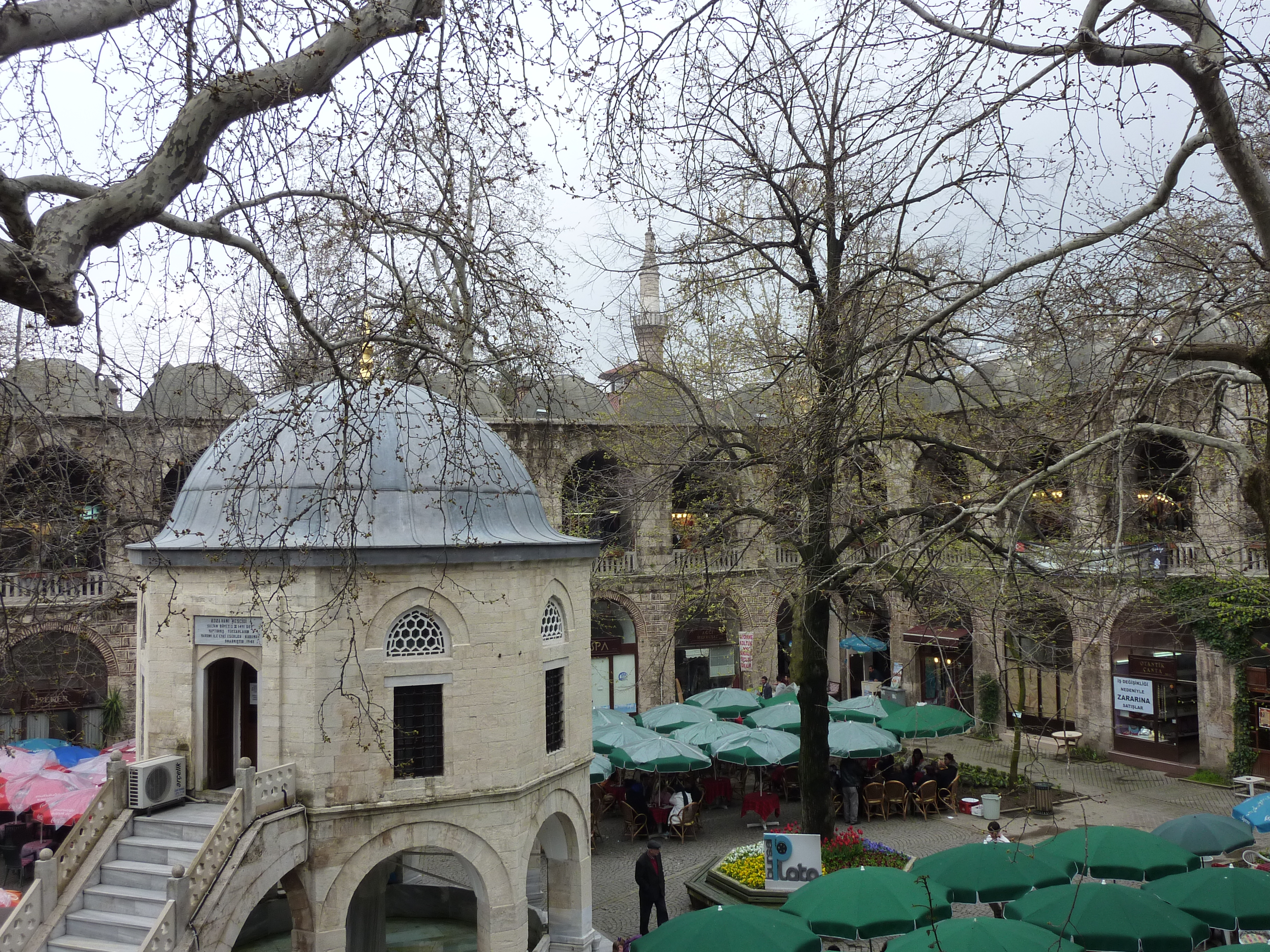 Silk Bazaar of Bursa (Turkey)